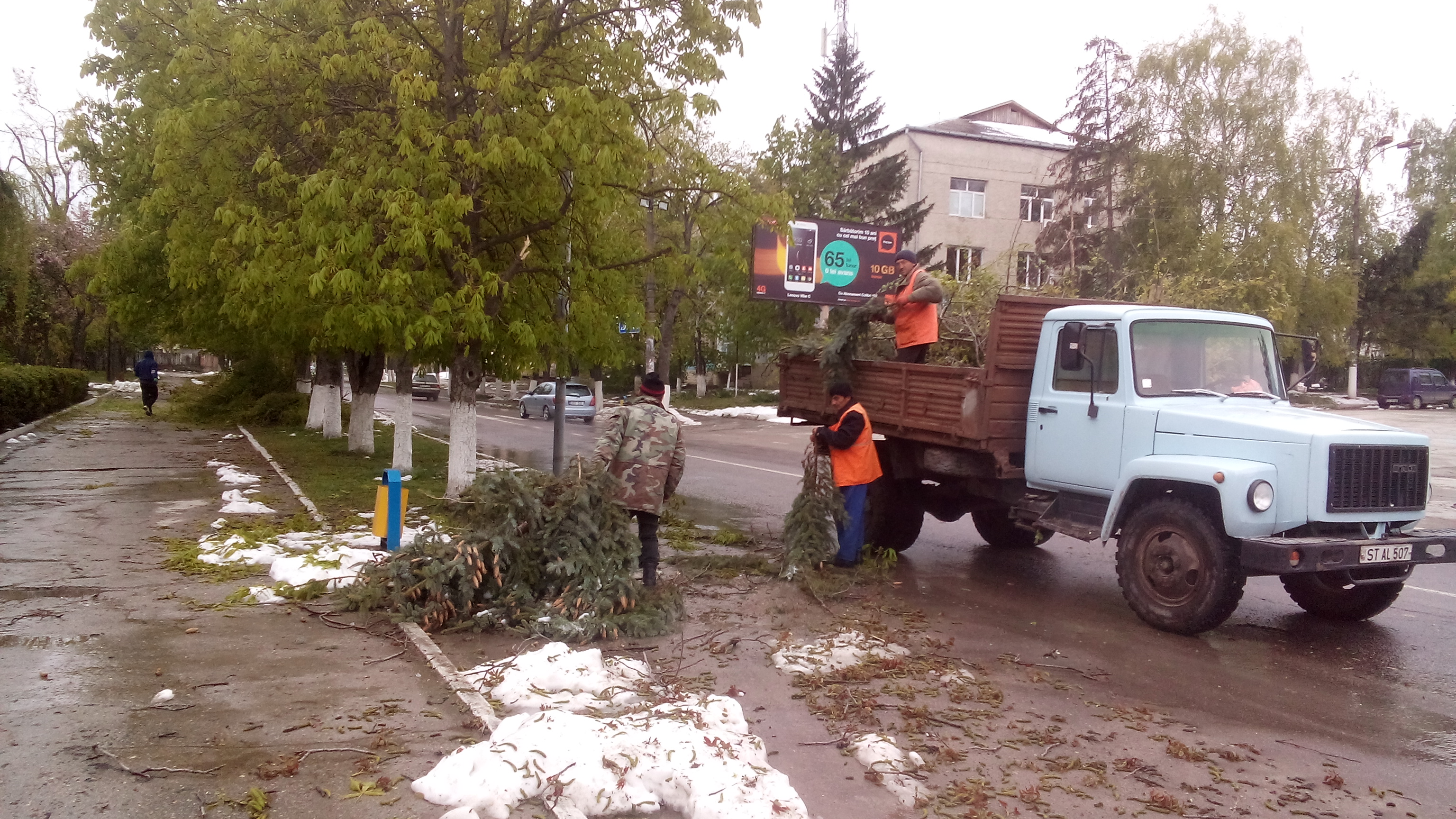 Consequences of heavy snowfall of April 2017 in Strășeni, Moldova